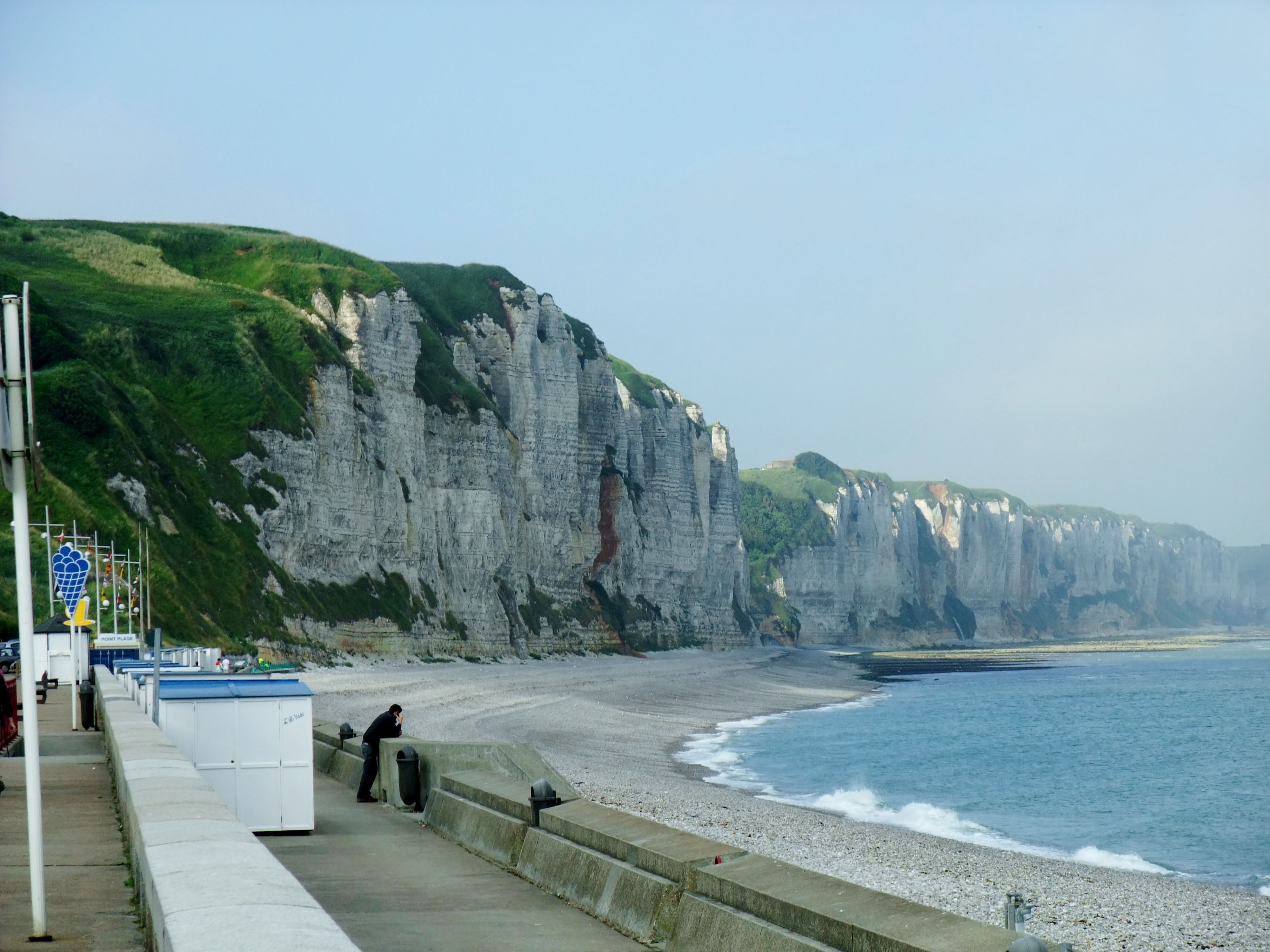 Beach of Fécamp, France